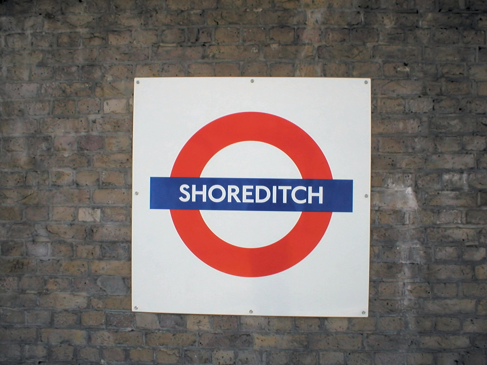 A London Underground roundel at Shoreditch tube station, a few days before closure. Taken by myself using digital camera on 6 June 2006. The station closed later that week on 9 June.